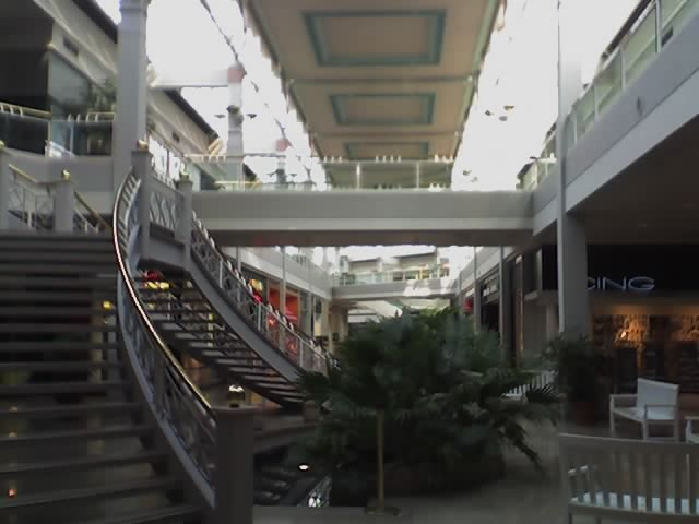 inside of mall